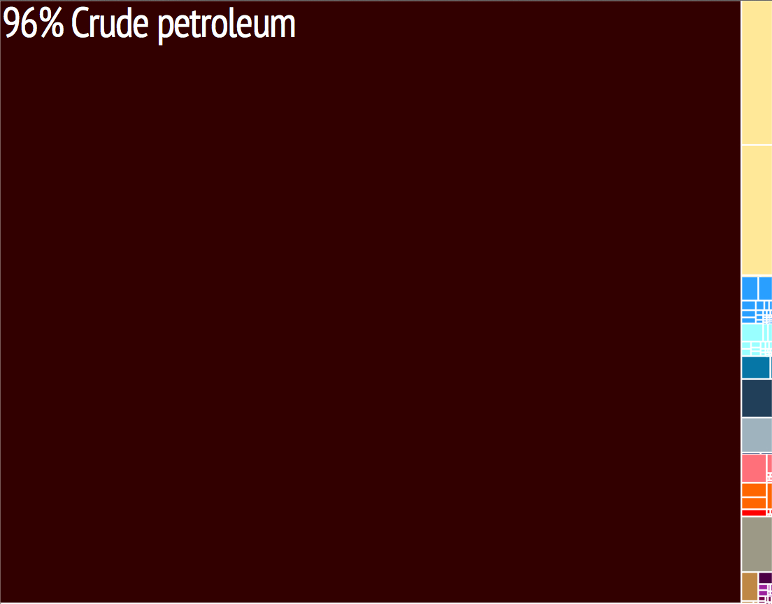 Export Trading Treemap. From MIT/Harvard Atlas of Economic Complexity